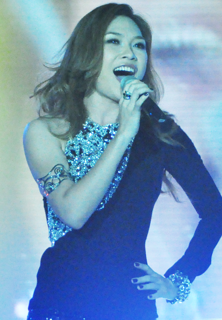 My Tam joins Simple Plan on stage at MTV EXIT concert in Hanoi against human trafficking